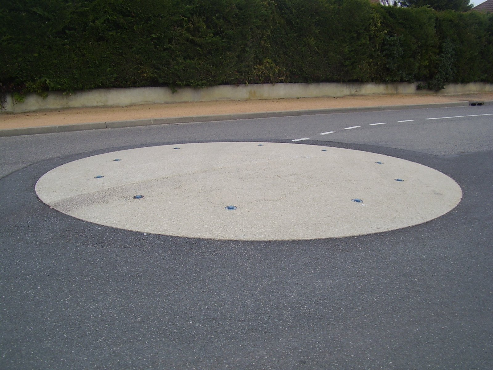 Mini roundabout in Bellerive-sur-Allier, Allier, Auvergne, France. Traffic calming rule. Is in the intersection Rue Jean-Baptiste Agabriel / Rue Jean Moulin / Rue Jean Ferlot.